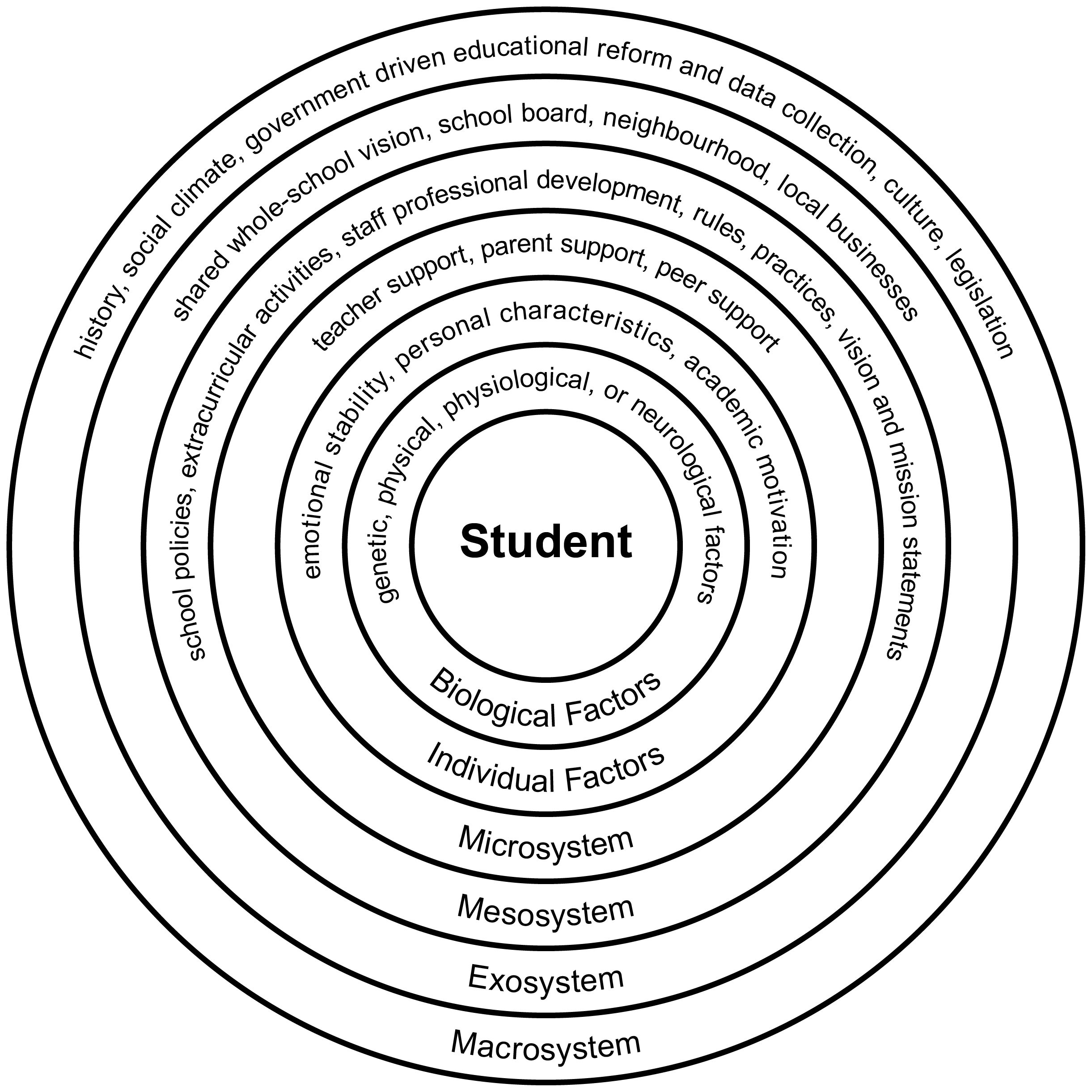 Allen, K. A., Vella-Brodrick, D., & Waters, L. (2016). Fostering School Belonging in Secondary Schools Using a Socio-Ecological Framework. The Educational and Developmental Psychologist, 33(1), 97-121.